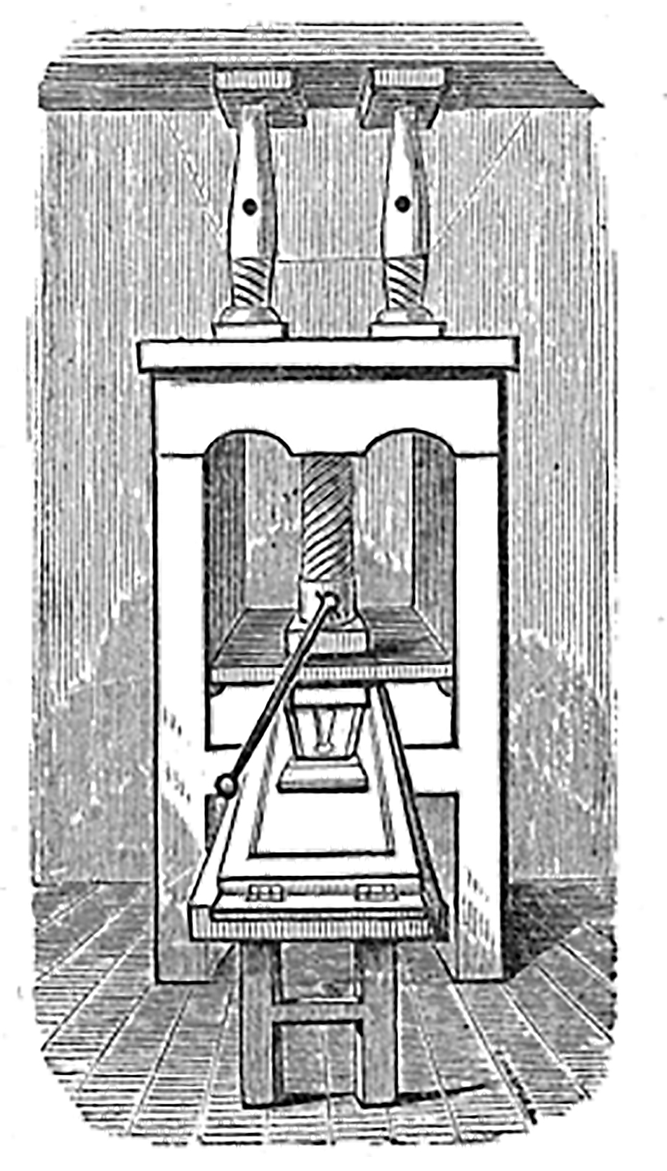 Woodcut press, from engraving in Early Typography by William Skeen, Colombo, Ceylon, 1872